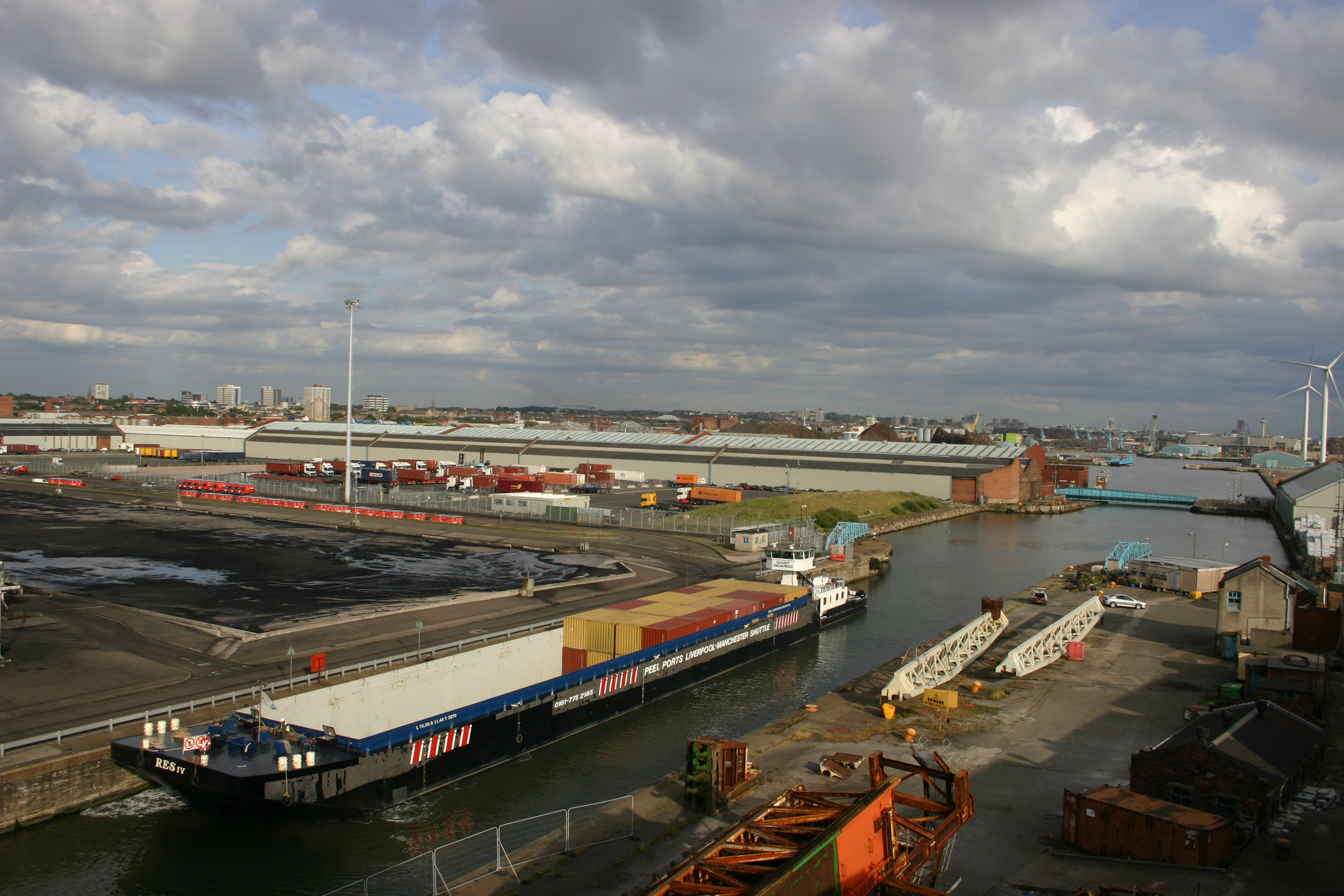 Liverpool's Hornby Dock area. The former dock entrance is still visible, filled in during the 1980s.